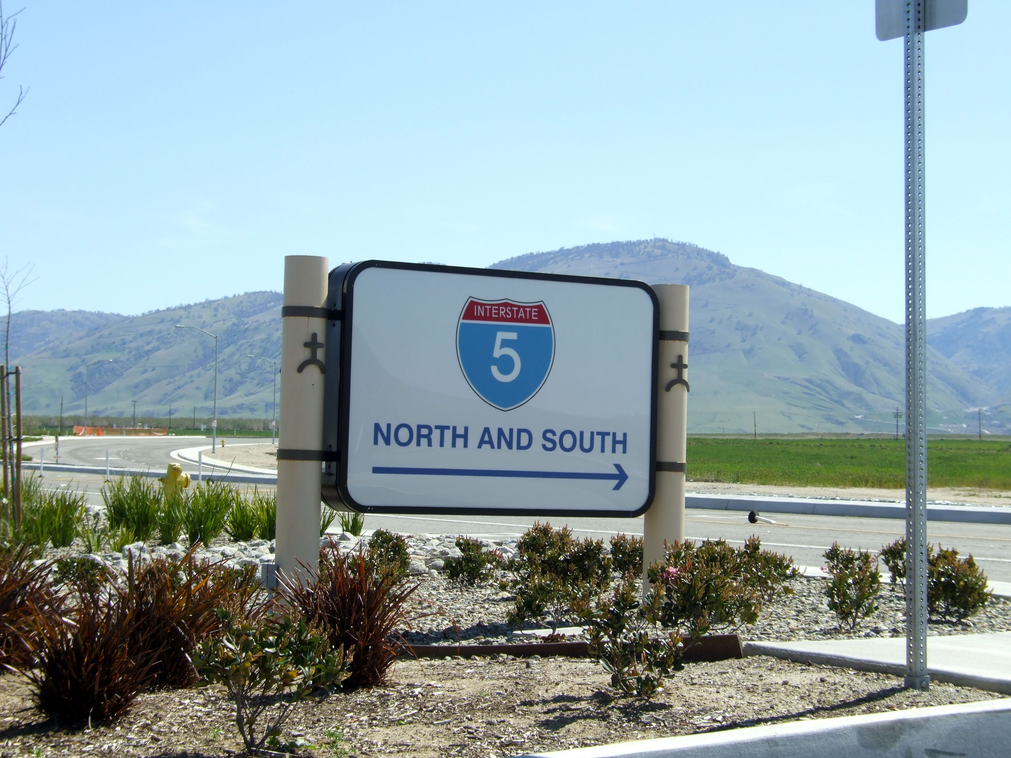 Highway directional sign in Wheeler Ridge, 2011 Other information Photo by George Garrigues.